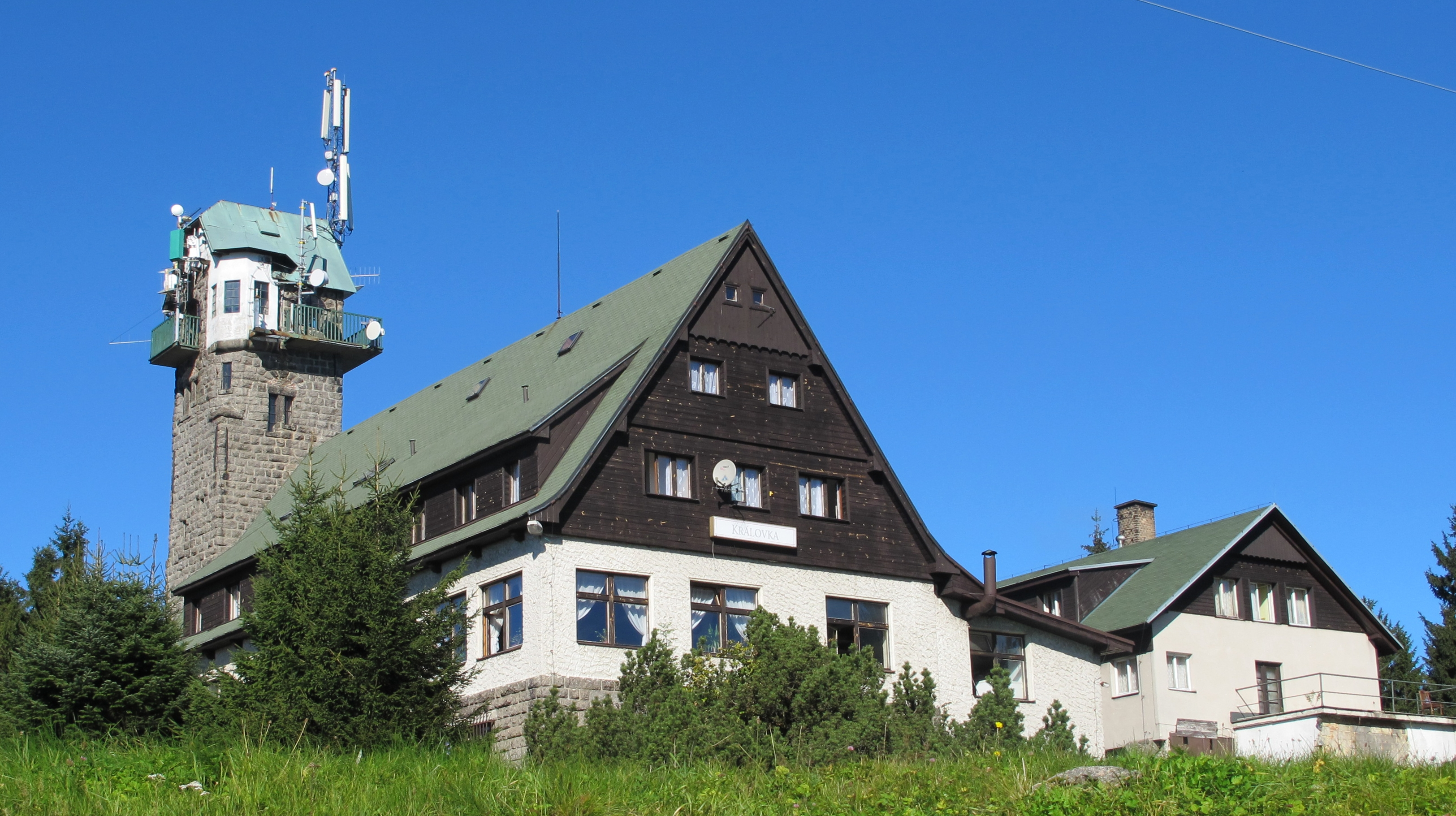 Tower Královka near Janov nad Nisou and Bedřichov in Jablonec nad Nisou District, Czech Republic